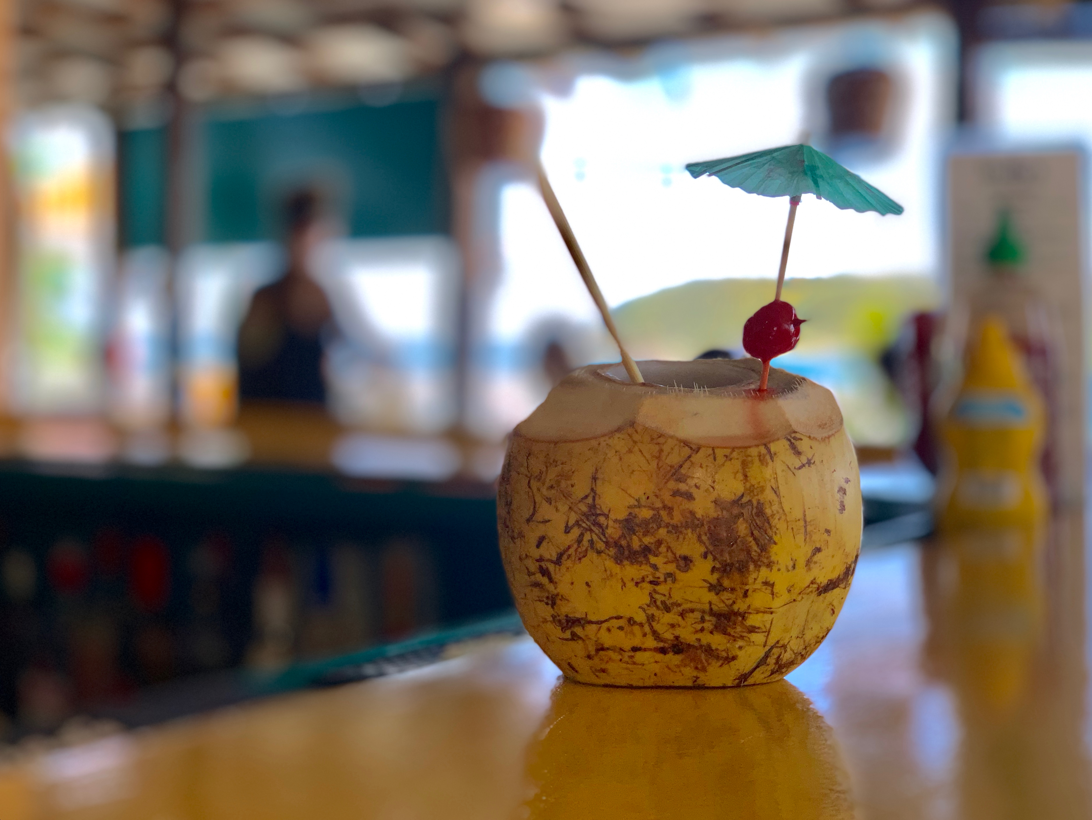 Stop by Duffy's. It's a must!